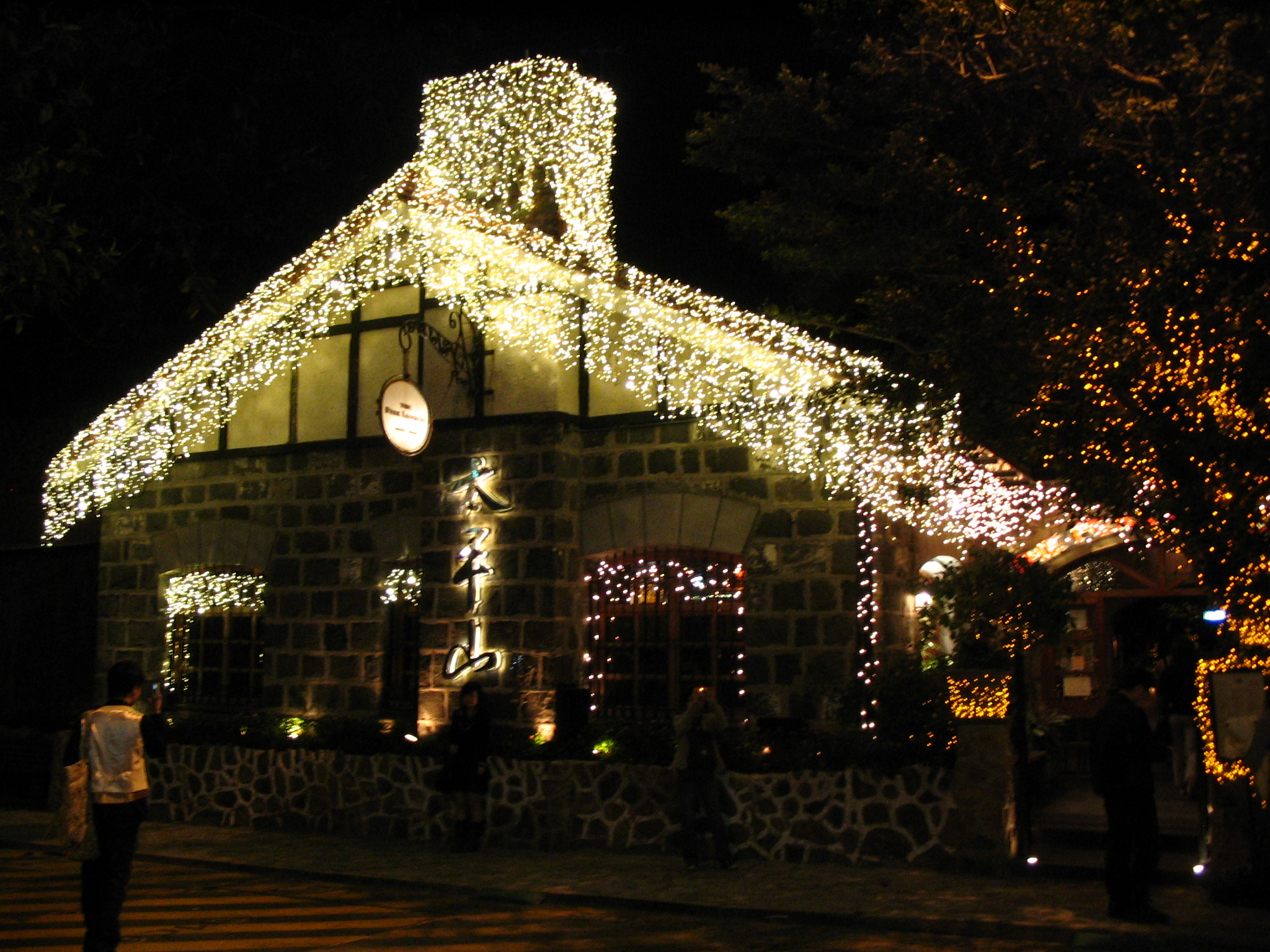 Photo of The Peak Lookout